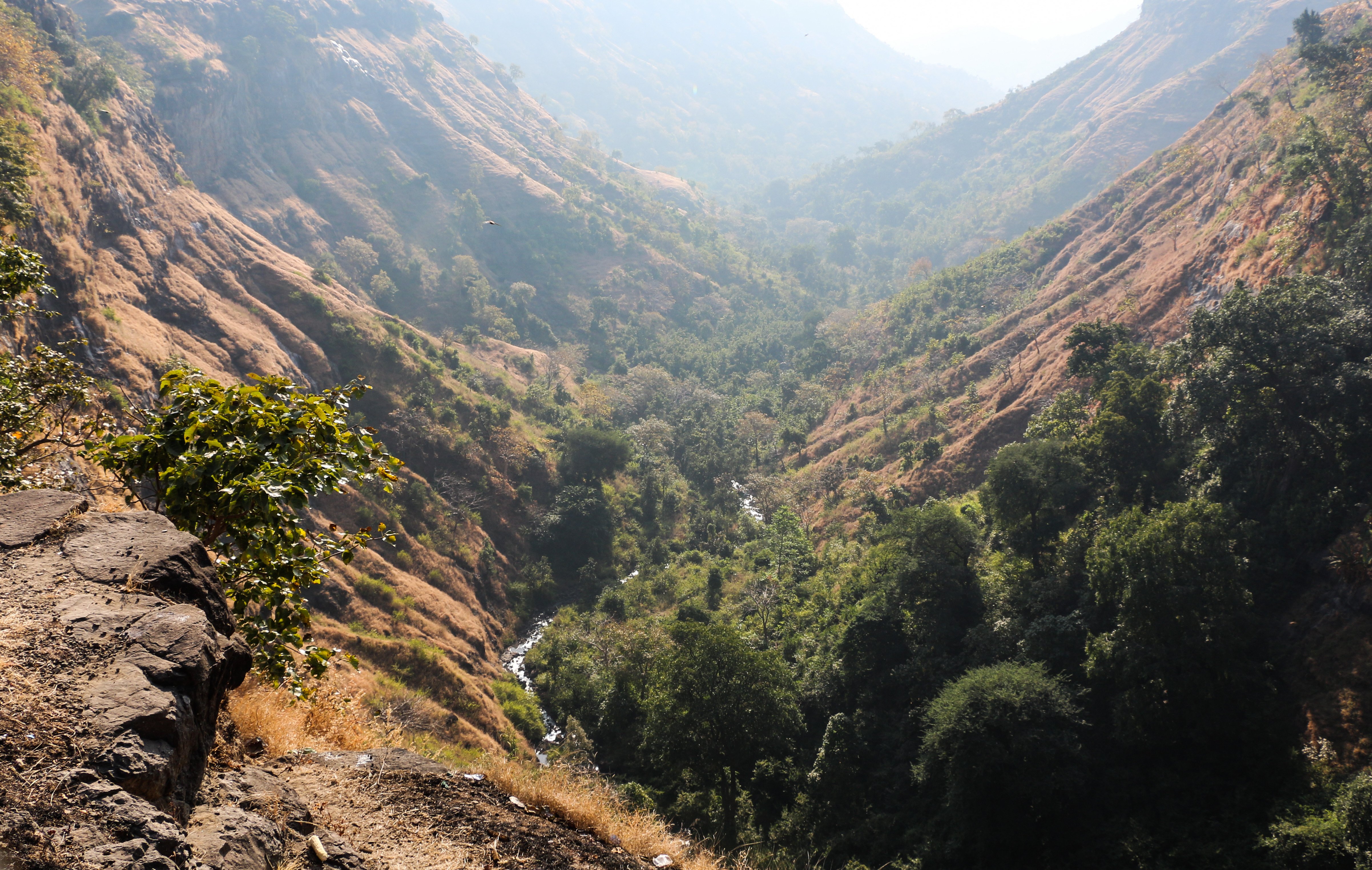 Site of Kakda Kho near Mandu, India